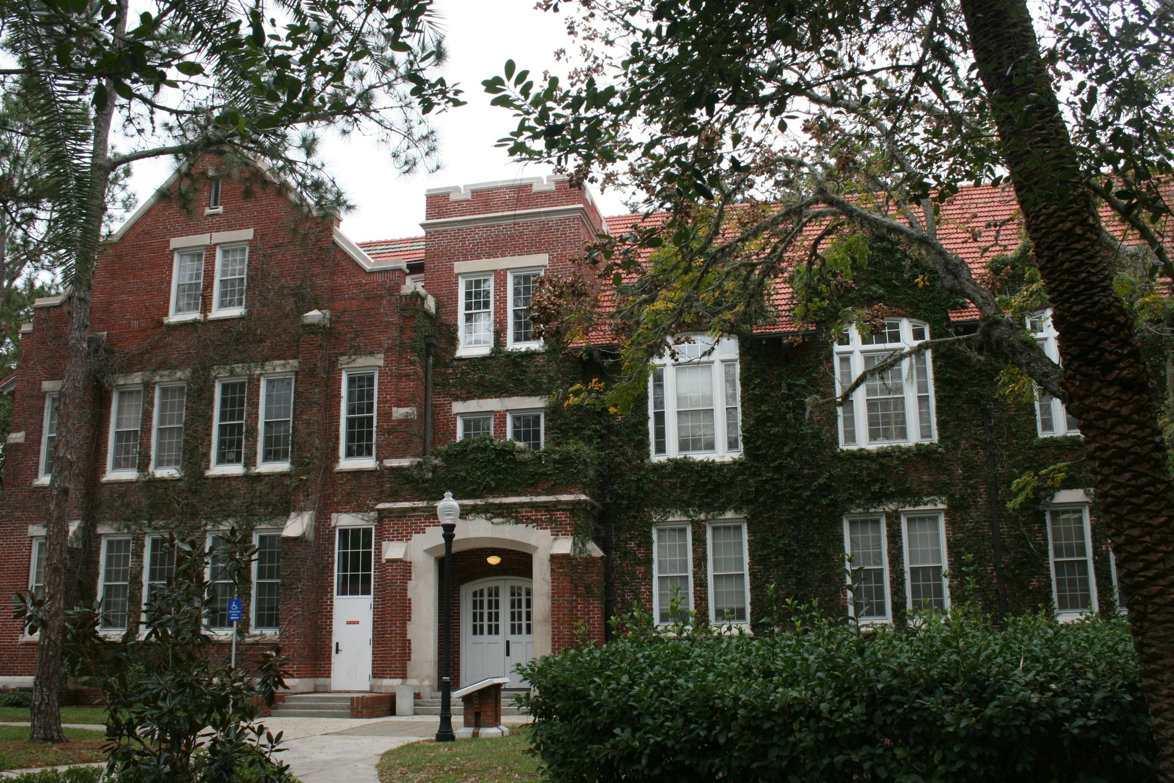 On 5 January 2007 I took pictures of most of the buildings on the UF campus that are designated National Historic Places. The only two buildings I didn't take pictures of are the Old WRUF station building and the Women's Gym. The day was overcast and about to rain so the skies aren't so great, but I think they get the job done. If I get any better shots of these buildings I'll upload them in place of the older ones. This message will be the same on all the images. --Douglas Whitaker 05:48, 6 January 2007 (UTC)